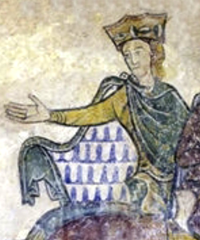 Detail from a mural in Chapelle Sainte-Radegonde de Chinon (Chapel of Saint Radegund in Chinon, France). The figure has been variously identified as Eleanor of Aquitaine, her son Henry, or some other member of her family.